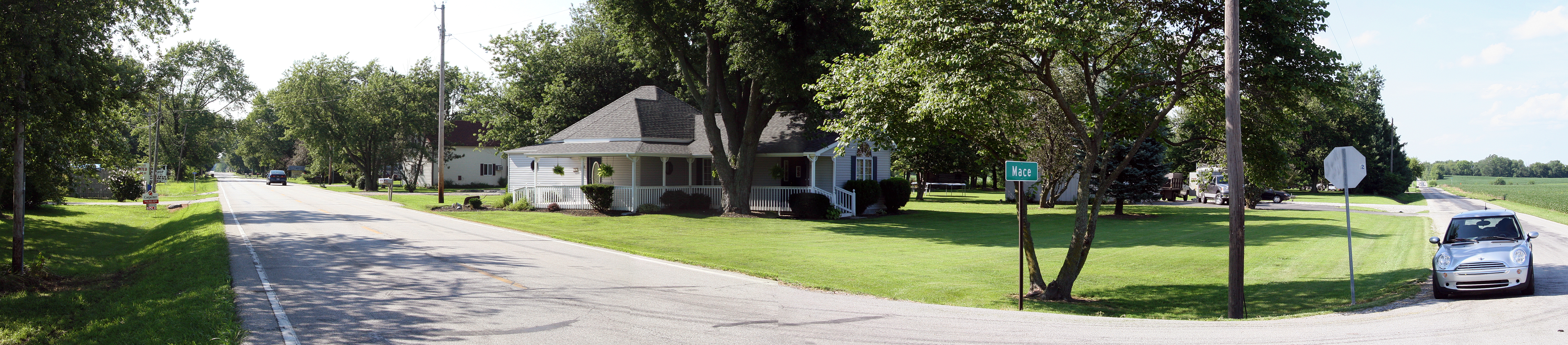 The east side of the small town of Mace in eastern Montgomery County, Indiana. The left side of the photo looks northwest along Main Street (U.S. Route 136); the right side looks north along County Road 600 East.